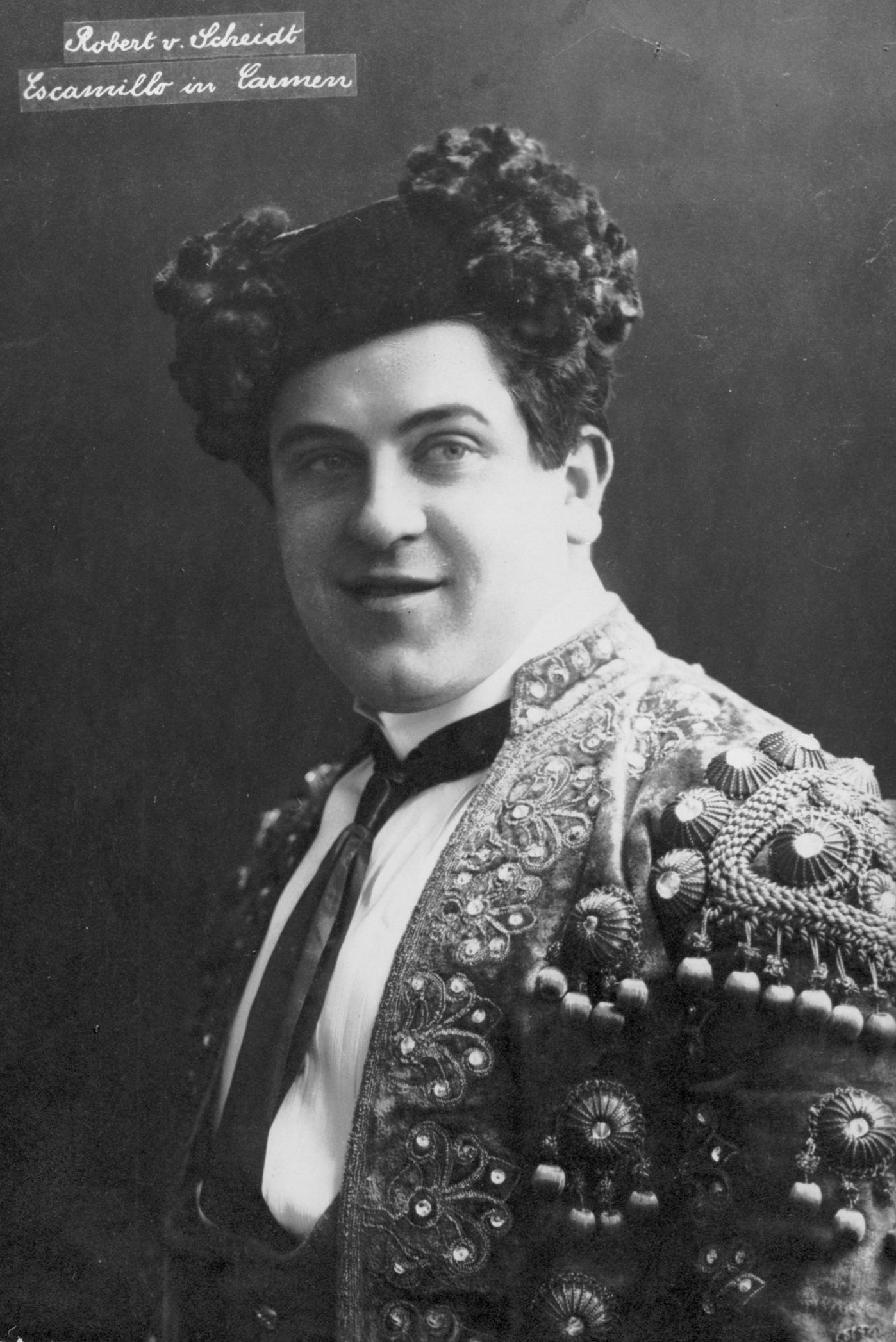 Robert vom Scheidt (1879–1964), German operatic singer as Escamillo